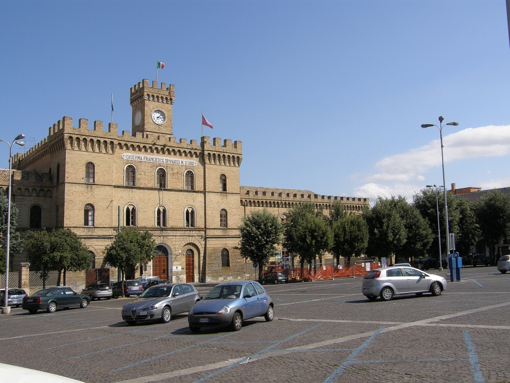 Chieti